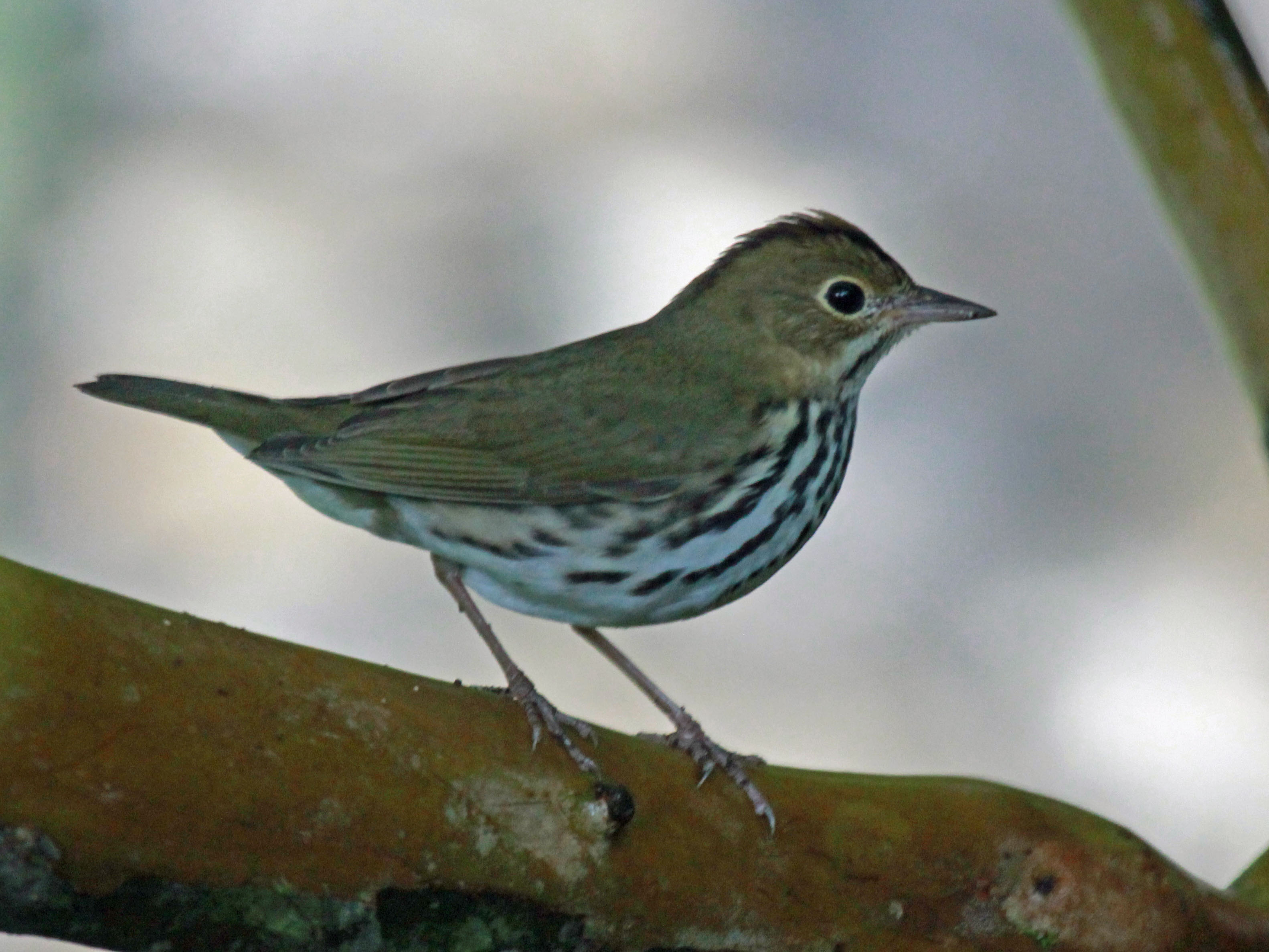 Ovenbird (Seiurus aurocapillus) - Negril, Jamaica